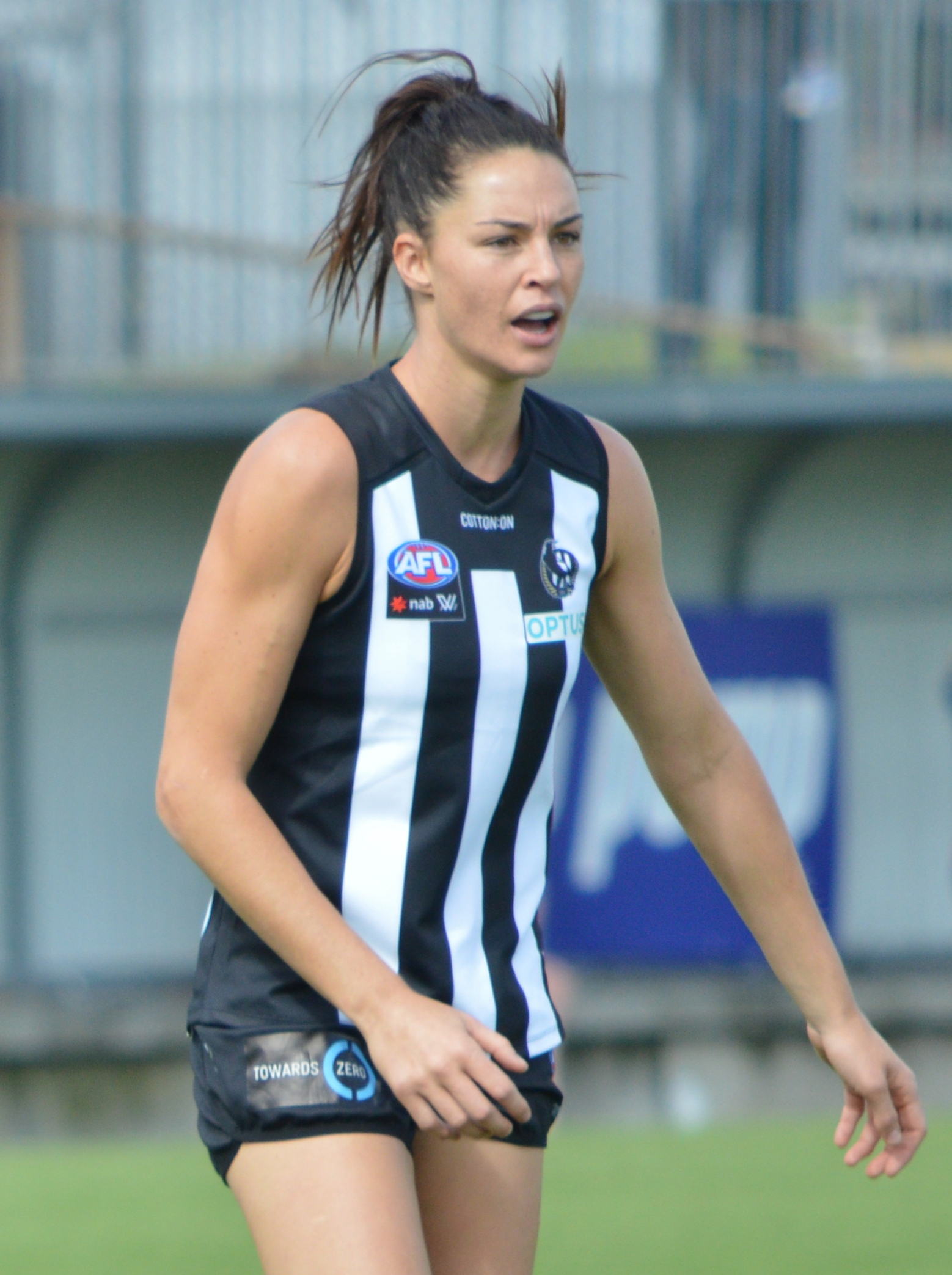 Sharni Layton with Collingwood during a match against Melbourne at Victoria Park in round 2 of the 2019 AFL Women's season.